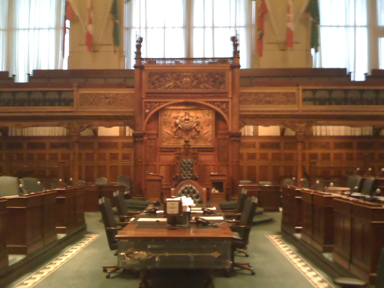 Ontario Provincial Parliament, Queens Park, Toronto